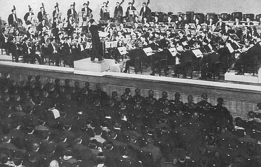 Celebrating Music in Imperial 2600 Concert